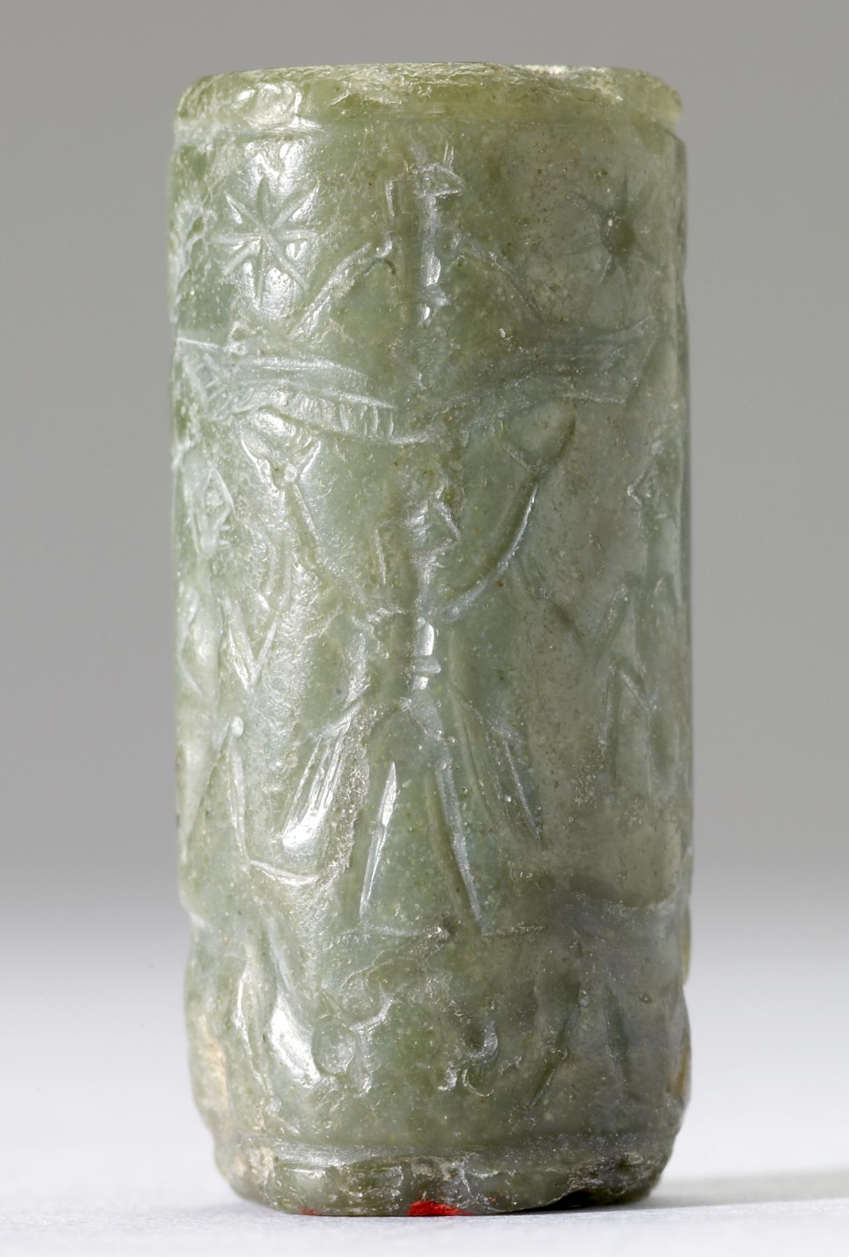 This seal depicts a group of Mitannian deities. A winged male stands between two bulls and holds aloft a winged disk from which a deity emerges. Two male figures kneel on the backs of the bulls in adoration. A winged female stands holding small animals, and a male deity stands on a lion's back. He holds a weapon (possibly a mace) in one hand and a horned animal in the other; a bird perches on his shoulder. The tradition of representing deities on the backs of animals came from central Anatolia.